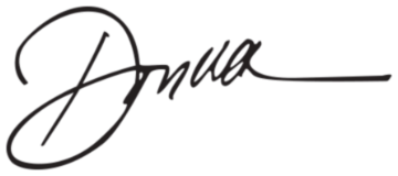 Signature of American singer-songwriter Donna Summer.